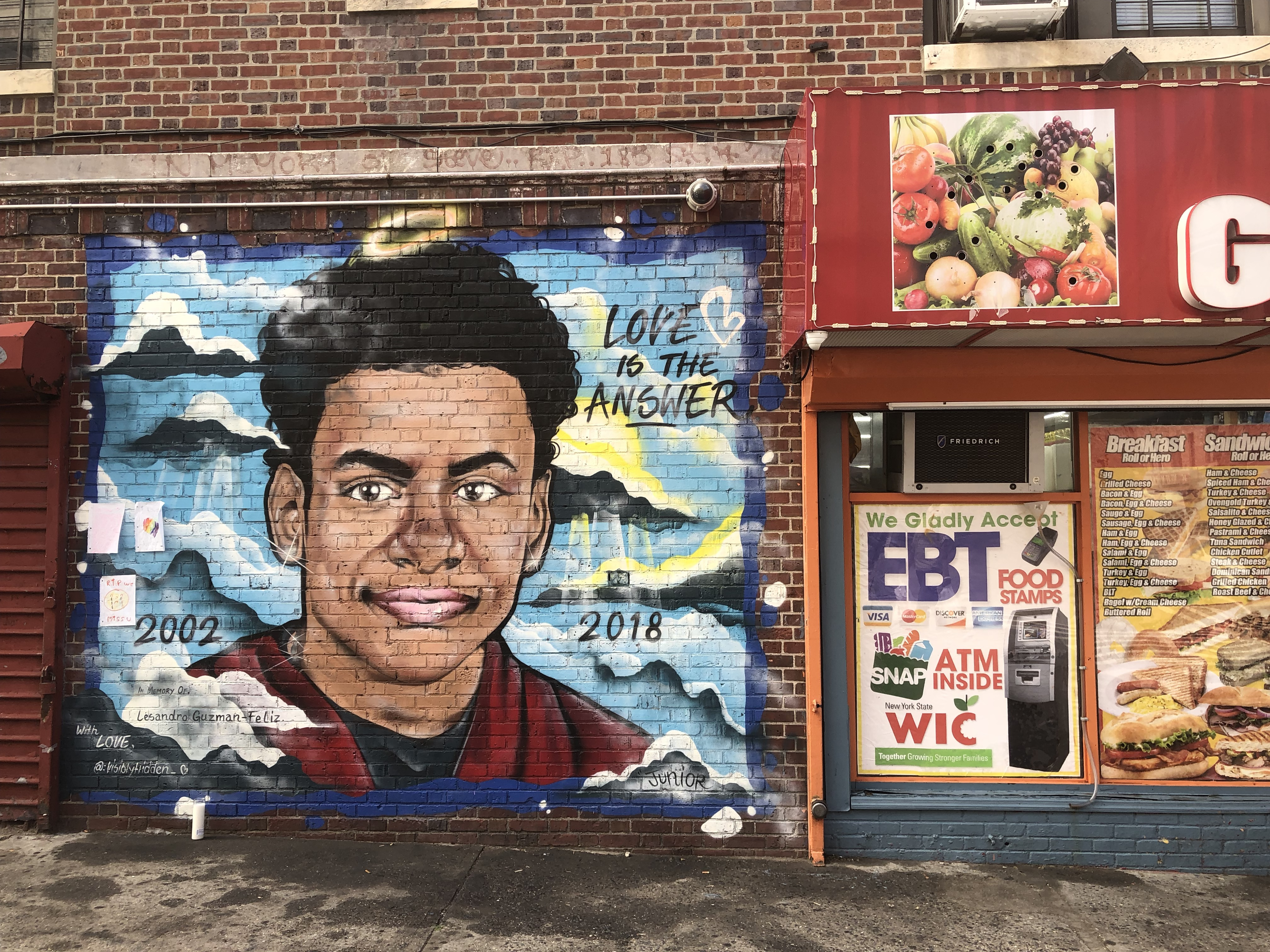 Memorial to Lesandro Guzman-Feliz in Belmont, The Bronx, New York City. At the grocery store at the north-west corner of East 183rd street and Third Avenue, opposite an entrance to St. Barnabas Hospital.